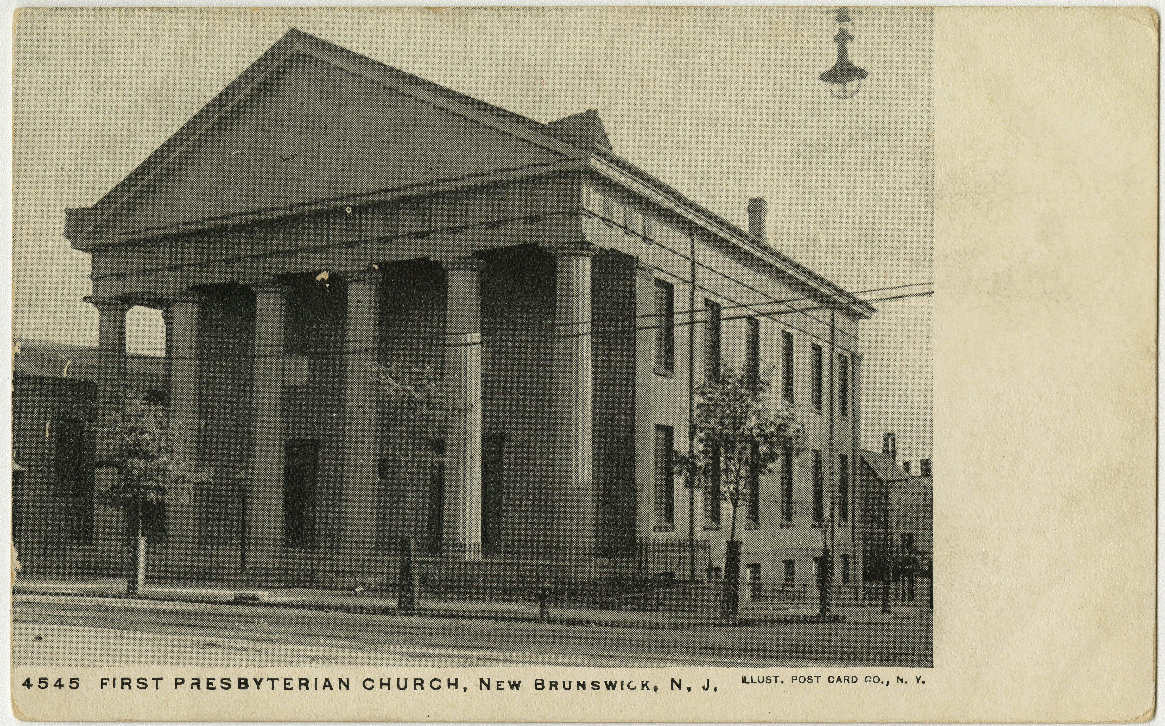 First Presbyterian Church in New Brunswick, New Jersey from a pre-1923 postcard From RG 428, Postcard Collection, Presbyterian Historical Society, Philadelphia, Pennsylvania.